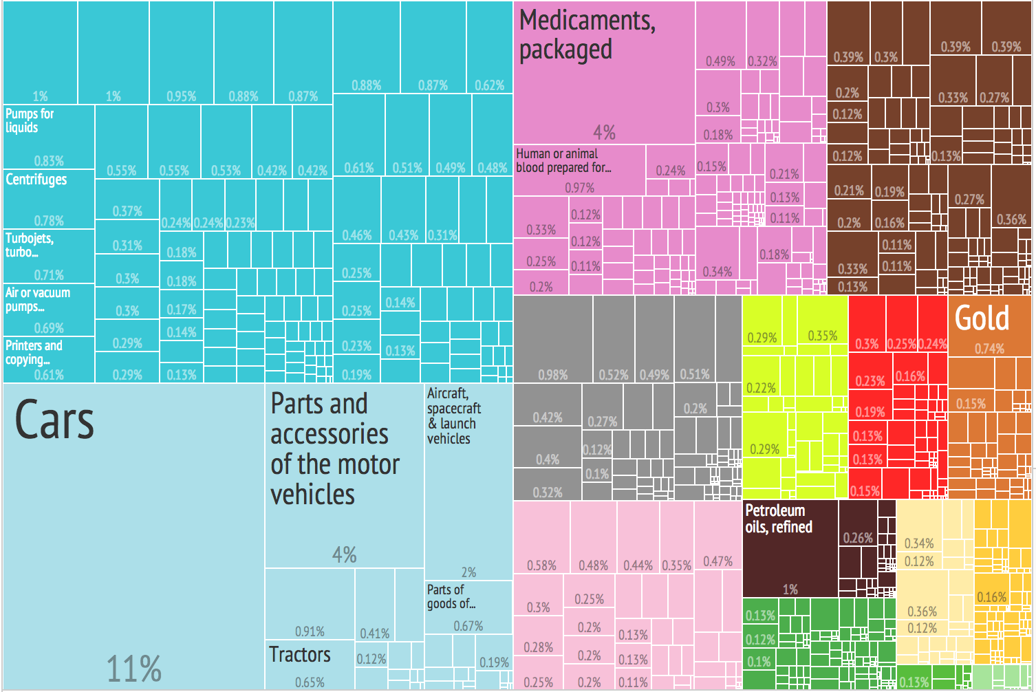 2012 Germany Products Export Treemap